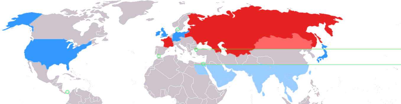 This map depicts the world as divided by geostrategist Alfred Thayer Mahan in his 1900 piece The Problem of Asia. Asia is divided along the 30 north and 40 north parallels, represented here by green lines. Colored in red are the two allied land powers, the Russian Empire and France. In lighter red are the portions of Asia above the 40th parallel under effective influence of Russian land power. Colored in blue are the four allied sea powers, Great Britain, the German Empire, Japan, and the United States. In lighter blue are the portions of Asia below the 30th parallel subject to effective control by sea power. In between the 30th and 40th parallel is what Mahan termed the "Debatable and debated ground," subject to competition between the land powers and sea powers. Circled in green are key isthmuses identified by Mahan: the Suez Canal, Panama Canal, Turkish Straits, Strait of Gibraltar, and Danish Straits. Source Created by myself, user:Perceval, using the :Image:BlankMap-World-WWI.PNG.